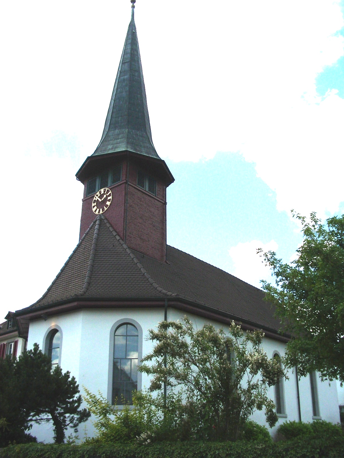 Niederhasli ZH, Switzerland